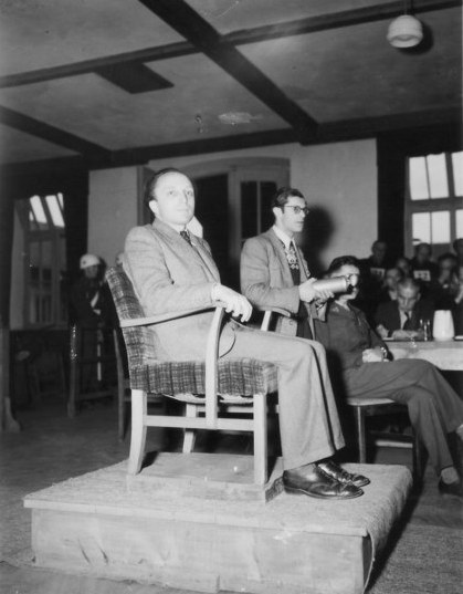 16 Apr. At the Buchenwald War Crimes Trial, Dachau, Germany, is shown from l-r: Dr. Sitte, witness for the prosecution; Werner Klein, radio reporter; and Herbert Rosenstock, translator. The defendants are on trial for atrocities committed at the Buchenwald concentration camp.